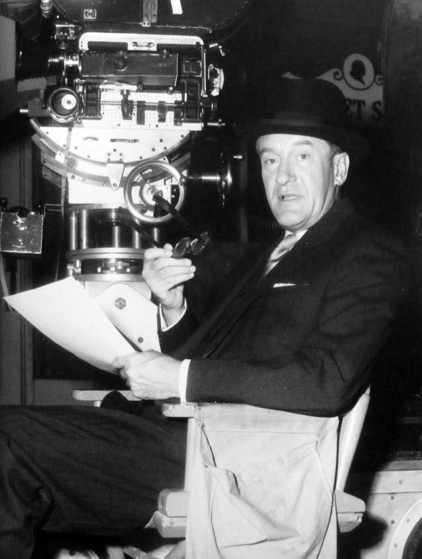 Publicity photo of George Sanders for his George Sanders Mystery Theater television program.